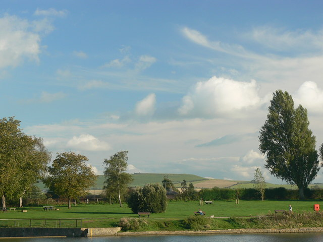 View from Coate Water, Swindon. The earthwork on the top right of the hill on the skyline is Liddington Castle, an iron age hillfort at SU208797. The bungalow in the centre of the lower half of the image is at SU184820. In the extreme bottom left of the image is the outfall from the lake from where water once flowed to the long-gone canal system in Swindon. It now flows to Shaftesbury Avenue lake. 306738